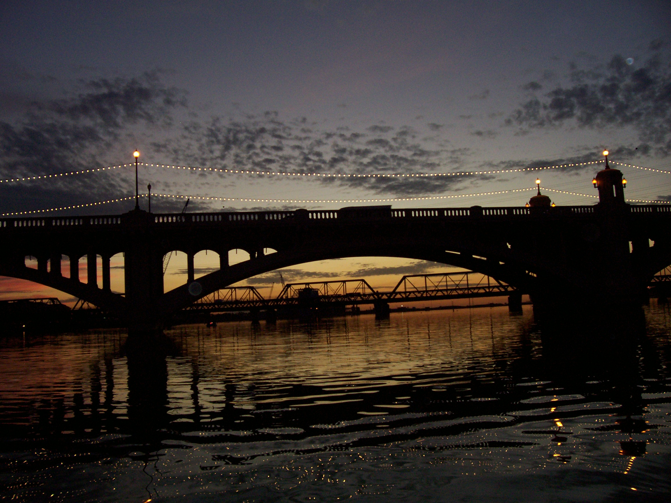 Mill Avenue Bridges over Tempe Town Lake at dusk.